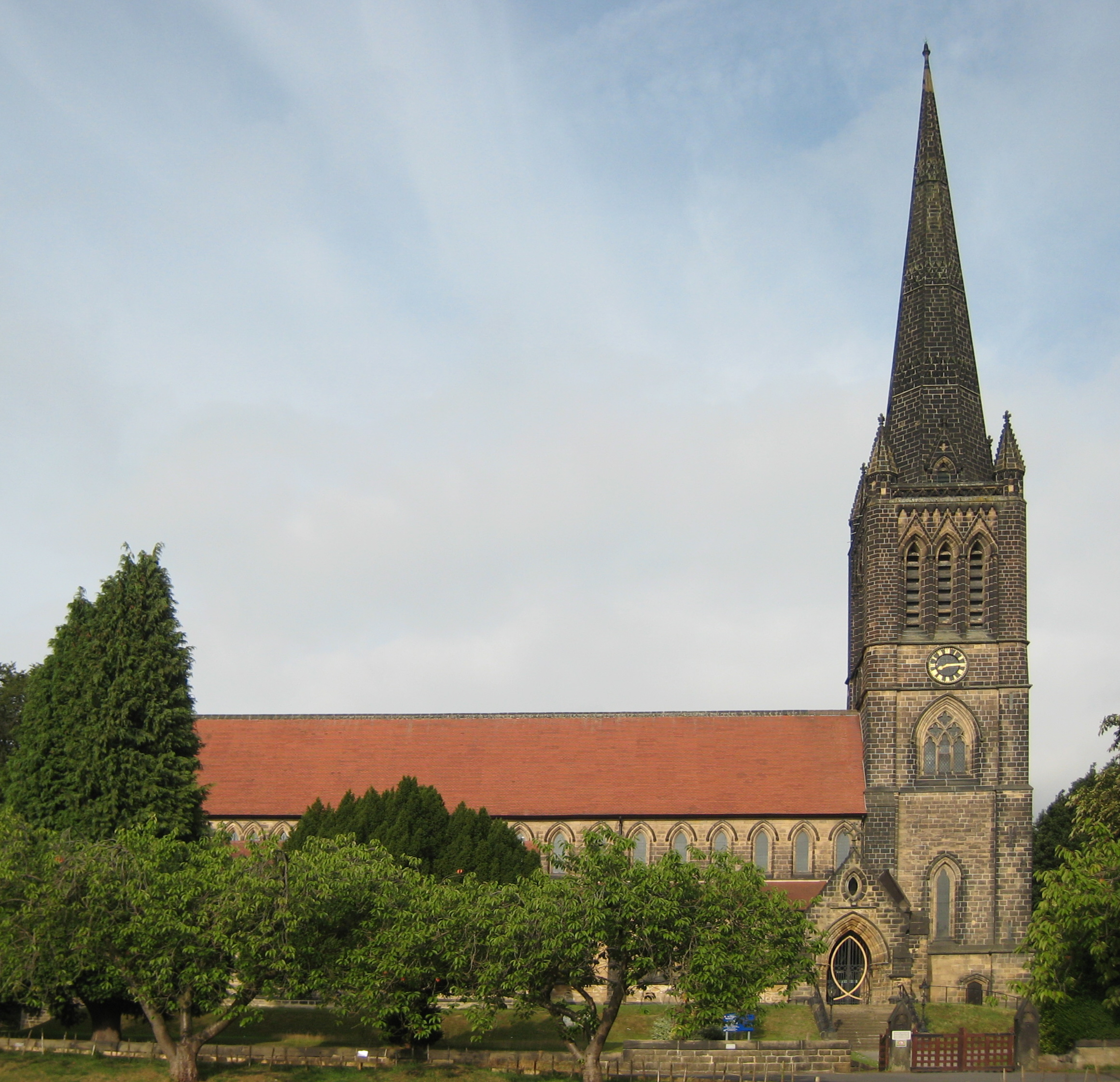 St Chad's Church, Otley Road, Far Headingley, Leeds LS16 5JT. East aspect.